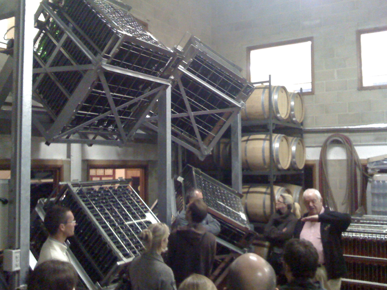 A gyropalette used in sparkling wine production as a mechanized form of riddling.